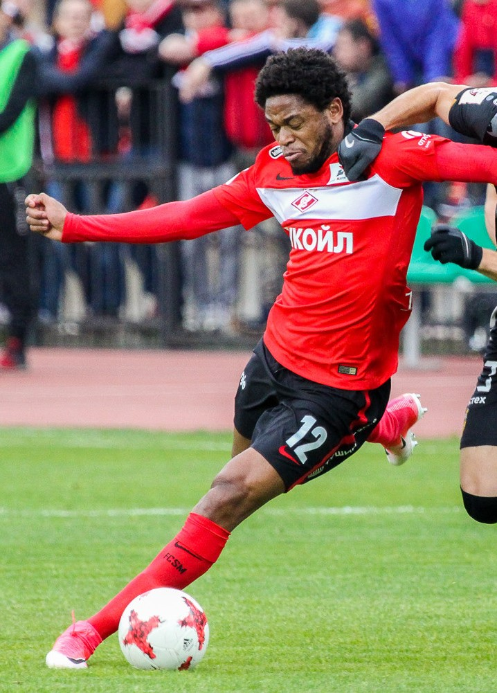 Luiz Adriano de Souza da Silva